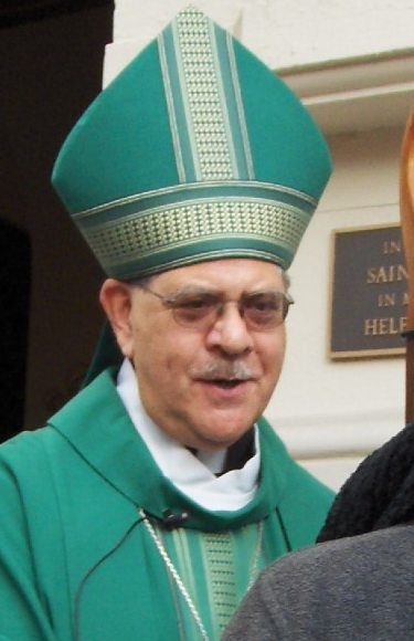 Bishop Richard Garcia being interviewed after his last Mass in front of Cathedral of the Blessed Sacrament in Sacramento by a KUVS reporter.